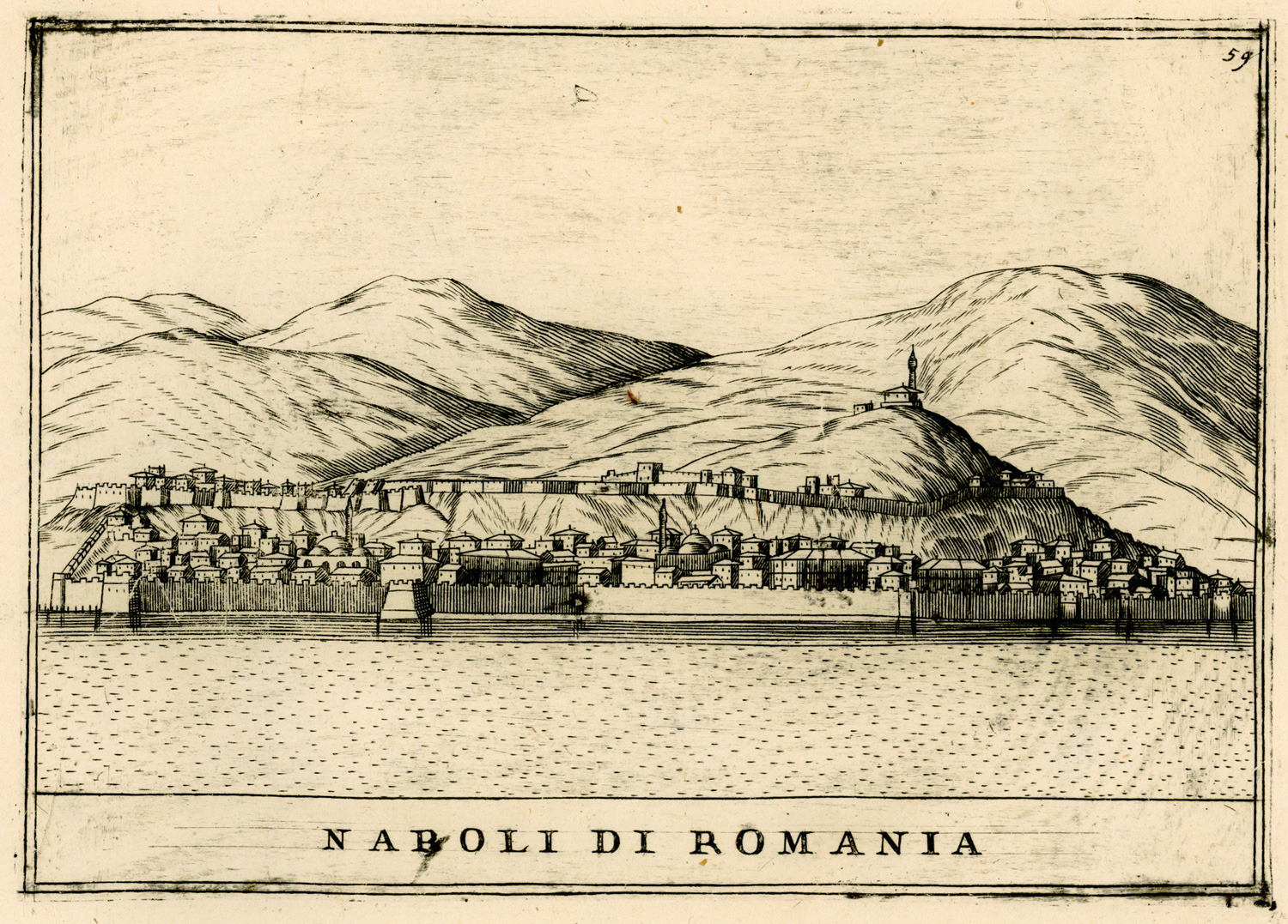 Vincenzo Coronelli - Repubblica di Venezia p. IV. Citta, Fortezze, ed altri Luoghi principali dell' Albania, Epiro e Livadia, e particolarmente i posseduti da Veneti descritti e delineati dal p. Coronelli, Venice, 1688.